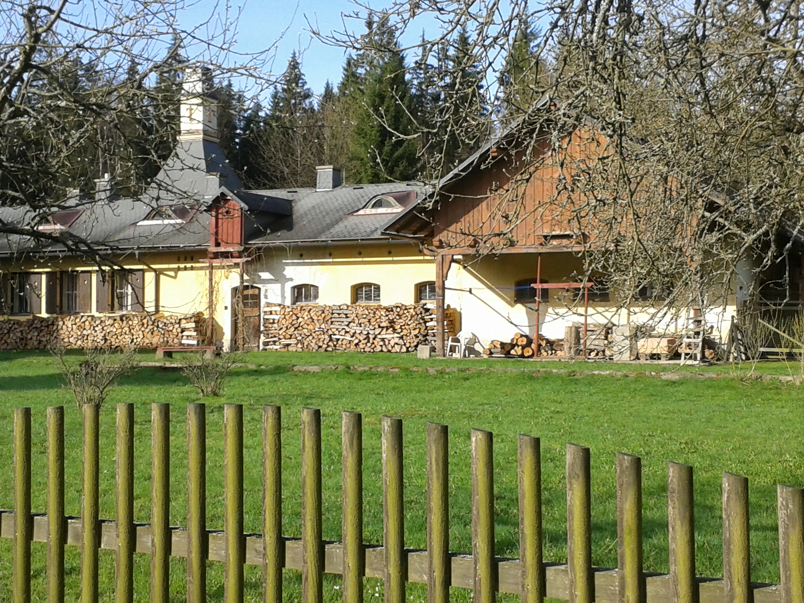 Area of hunting lodge Tři trubky ("Three tubes") in Brdy, Czech Republic. Buildings of the former garage, now (2015), outbuildings and site of building manager.